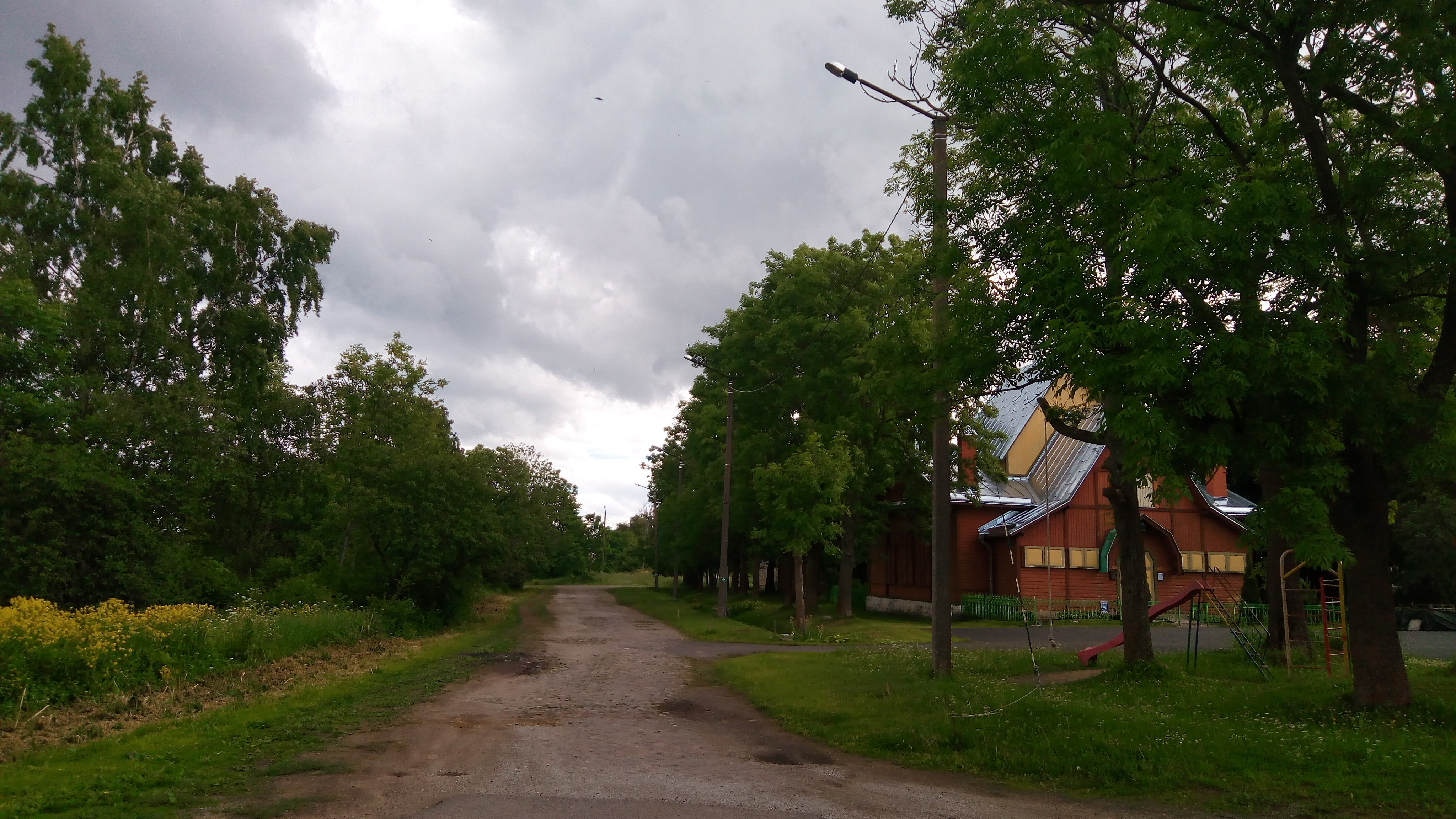 Treiali street in Tallinn, Estonia